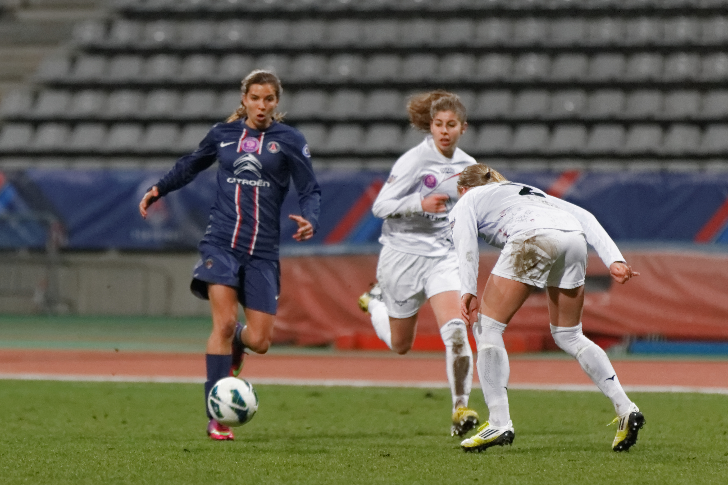 PSG-Juvisy, March 23th, 2013.